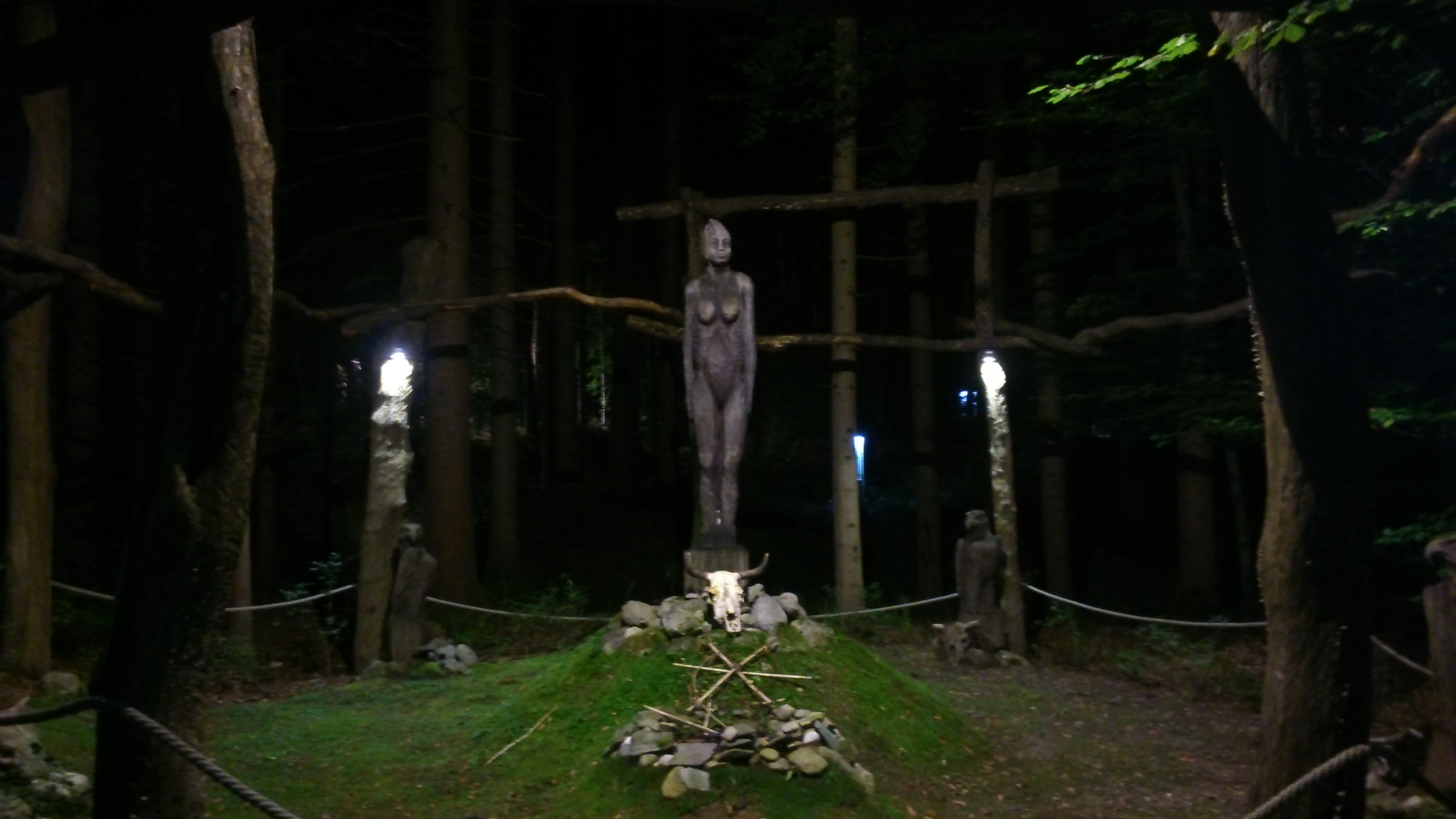 This picture shows a "holy hain" in the village Frög in Carinthia. In the middle of this stands the Celtic god Noreia around her are eagles looking to her beneath all them are skulls of cows.